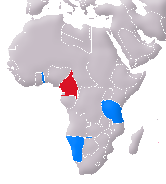 Location of Kamerun (red) and the other German colonies in Africa (blue)